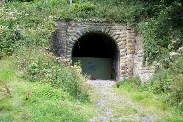 Sealed tunnel of dismantled railway